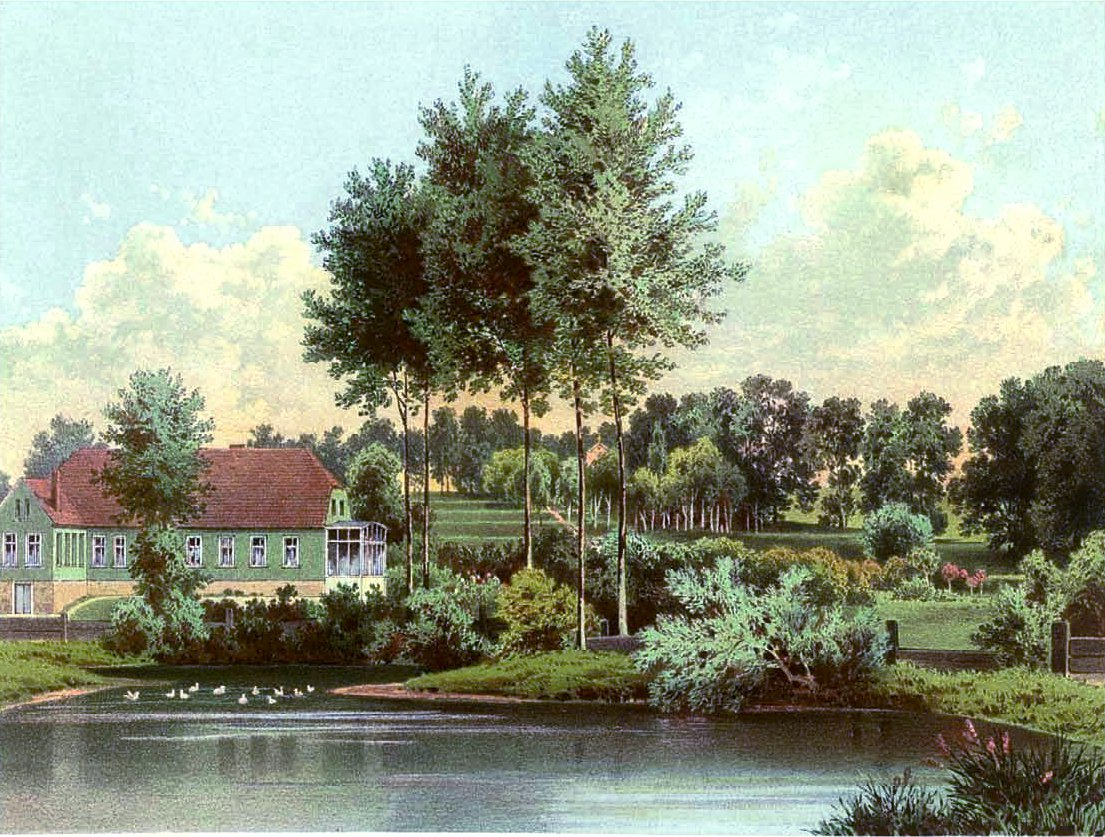 Manor in Otnoga